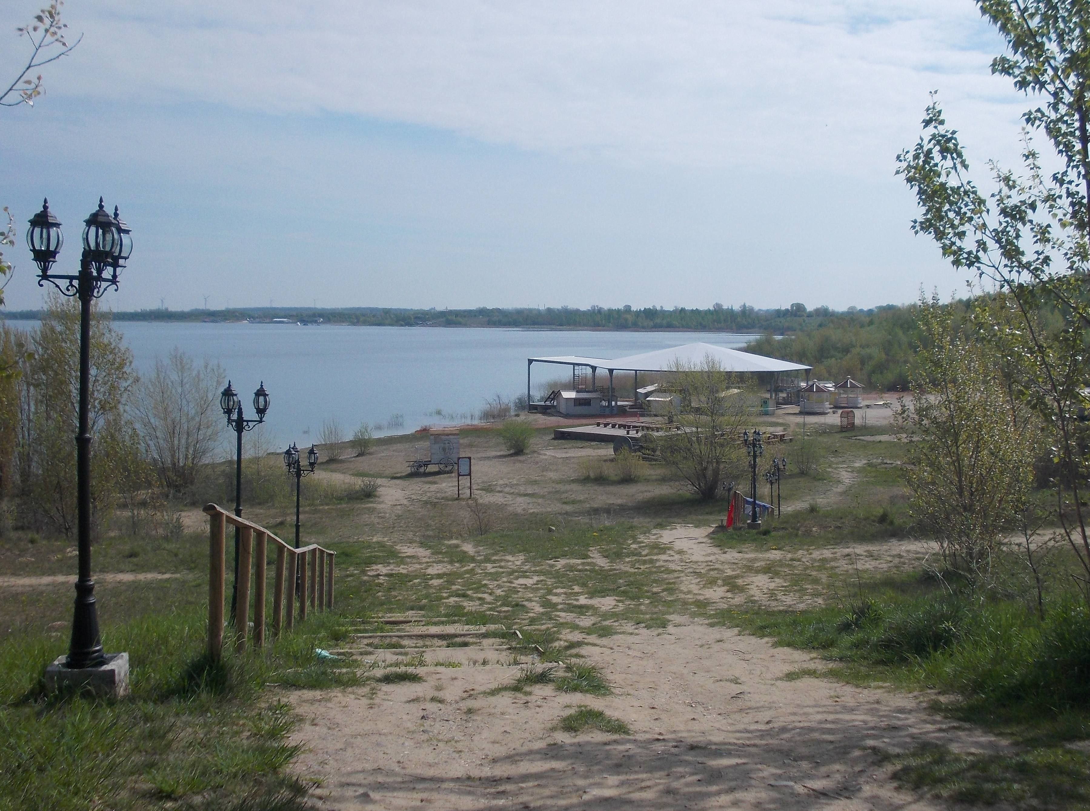 Biedermeier Beach of Schladitz Lake near Hayna (Schkeuditz, Nordsachsen district, Saxony)